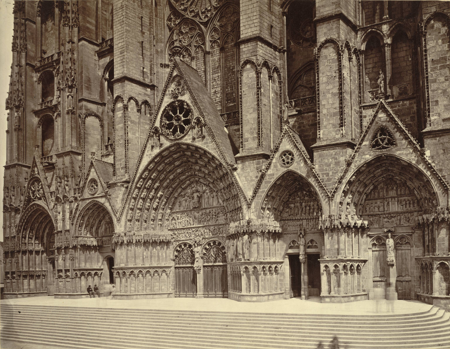 Collection: A. D. White Architectural Photographs, Cornell University Library Accession Number: 15/5/3090.01311 Title: Bourges Cathedral, Entrance Building Date: 1190-1275 Photograph date: ca. 1865-ca. 1886 Location: Europe: France; Bourges Materials: albumen print Image: 8.6614 x 11.1811 in.; 22 x 28.4 cm Style: High Gothic Provenance: Gift of Andrew Dickson White Persistent URI: There are no known copyright restrictions on this image. The digital file is owned by the Cornell University Library which is making it freely available with the request that, when possible, the Library be credited as its source. We had some help with the geocoding from